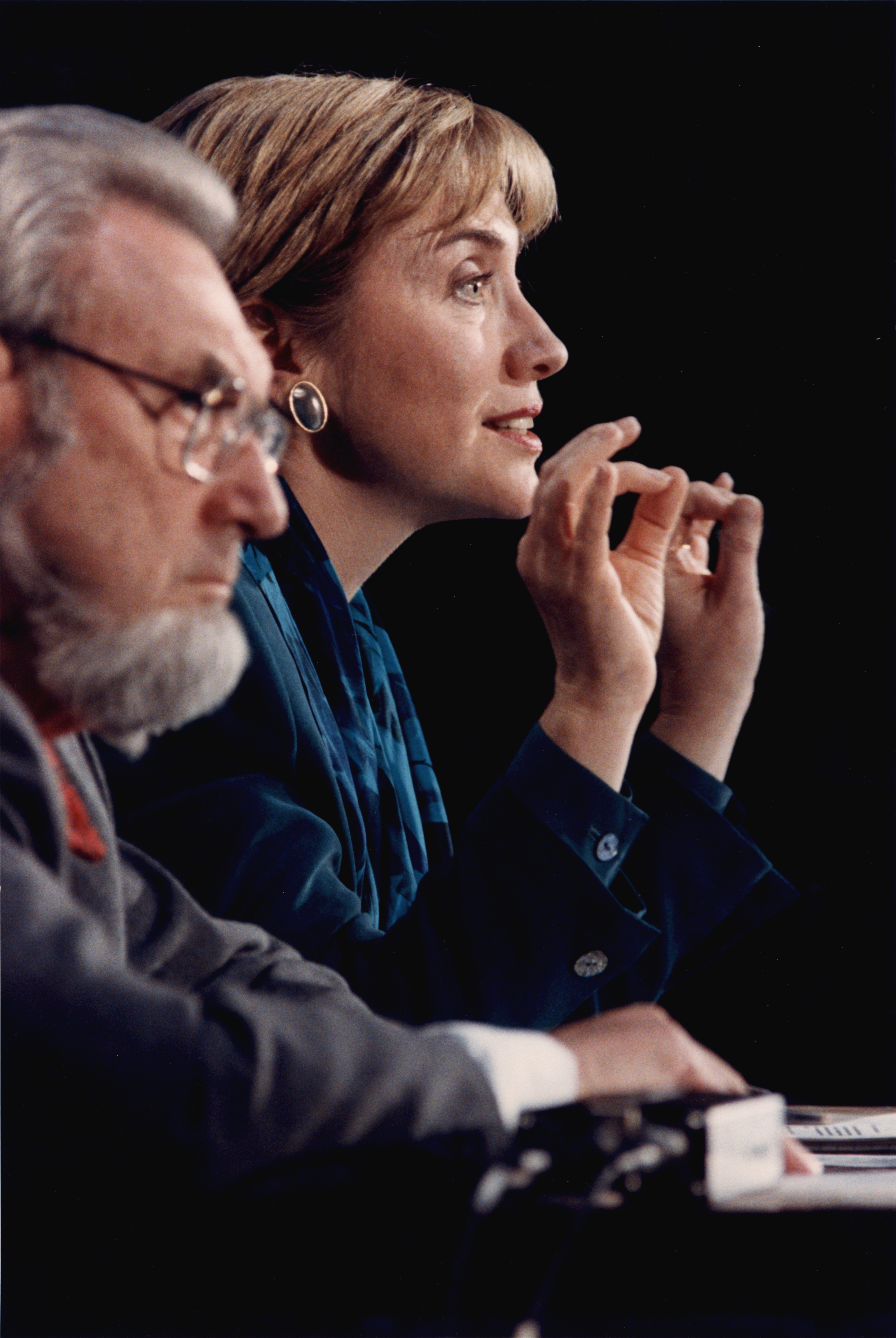 As U.S. Surgeon General, Koop became increasingly concerned about the escalating cost of health care, the growing disparity in access to health services, the mounting number of Americans without health insurance, and the financial future of Medicare and Medicaid. After leaving office in 1989, Koop continued to press for health care reform. He participated in a series of public forums with First Lady Hillary Clinton in the fall of 1993 to promote President Clinton's Health Security Act.